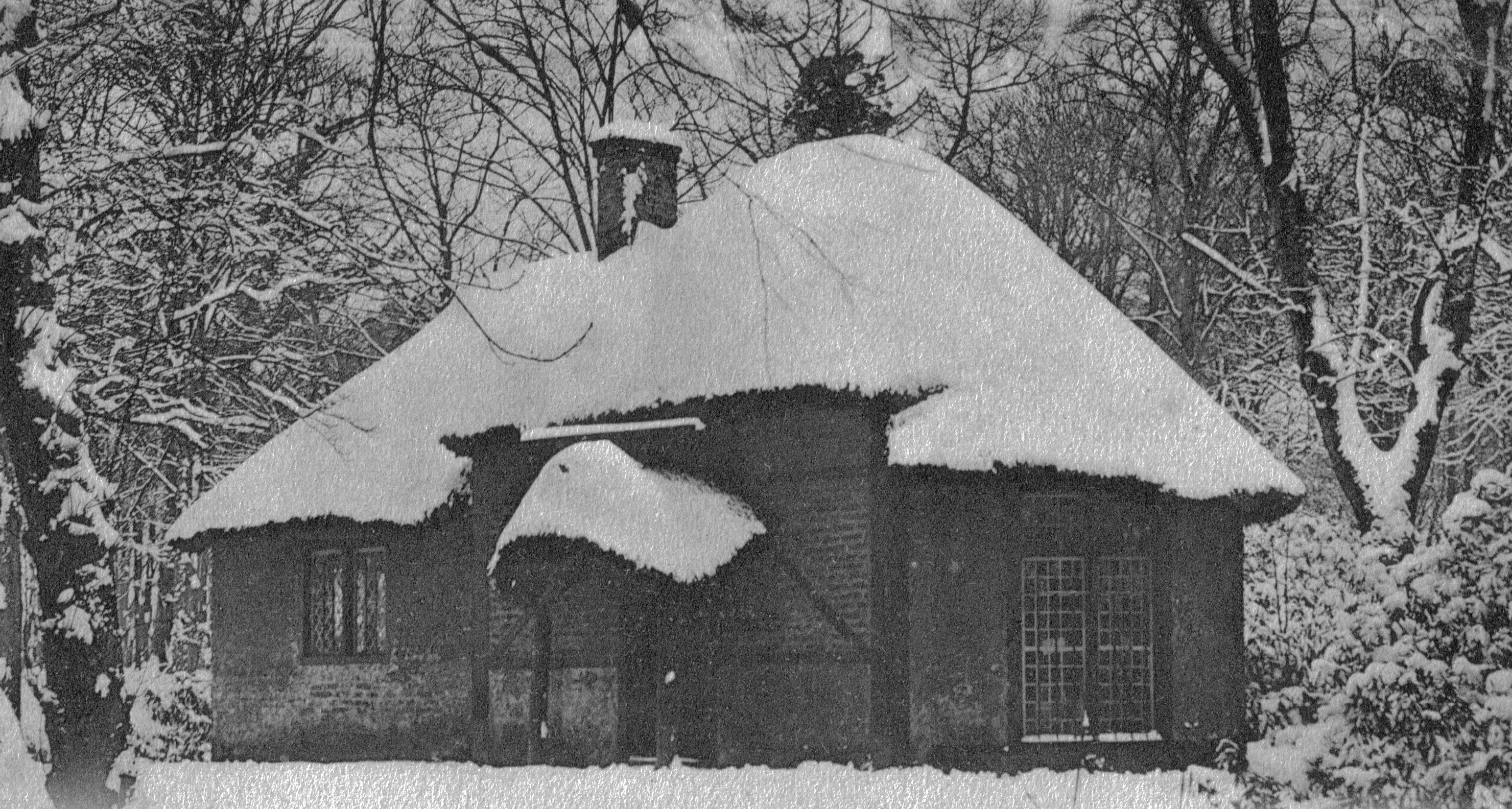 Lady Jane's cottage ornee in Eglinton, Kilwinning, Ayrshire, Scotland